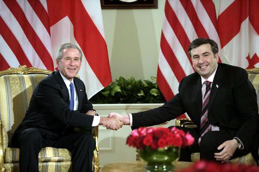 President George W. Bush and Georgian President Mikhail Saakashvili meet in Tbilisi Tuesday, May 10, 2005.